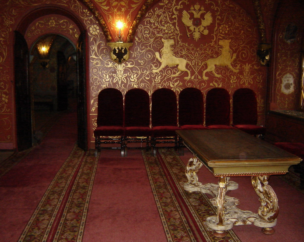 Teremnoy palace interior. Moscow Kremlin, Russia.